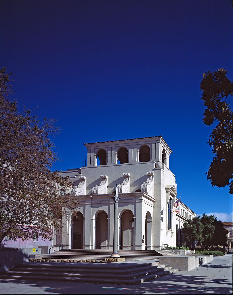 Architect Robert A. M. Stern chose a bold design for the new Pasadenda, California Police Department Building, which opened in 1990. Critics uniformly praised the building as strong yet complementary to the city's classic City Hall in "Old Pasadena."